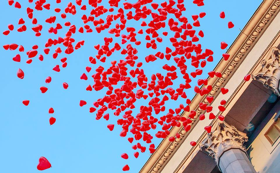 Releasing heart shaped ballons to commemorate those that are lost from HIV and AIDS globally on world aids day december 1st. Photographer Linda Rehlin